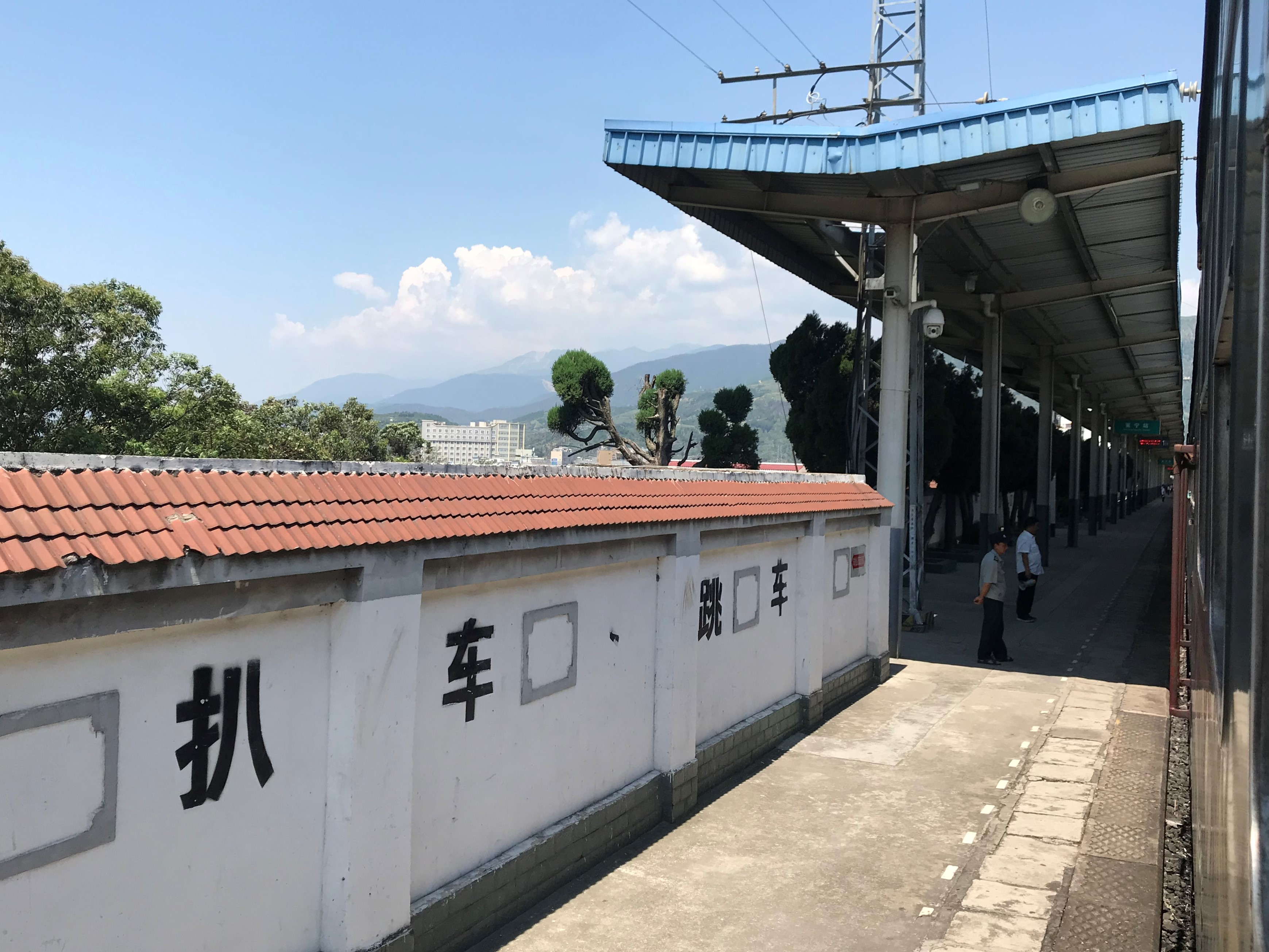 201908 Platform of Mianning Station